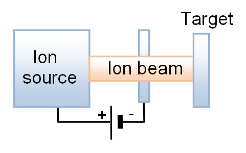 Parallel beam irradiation with ions of selected mass and energy. R. Spohr, (1990) Ion tracks and microtechnology, Vieweg Verlag